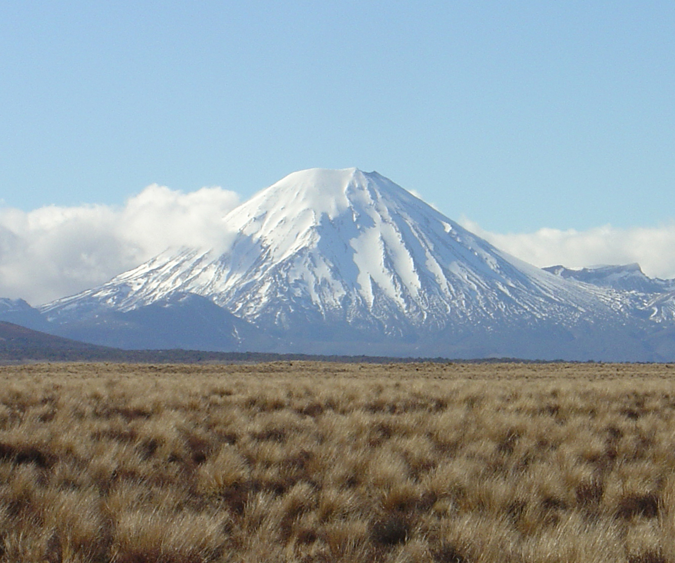 Mount Ngauruhoe photographed from the Desert Road in November 2003.